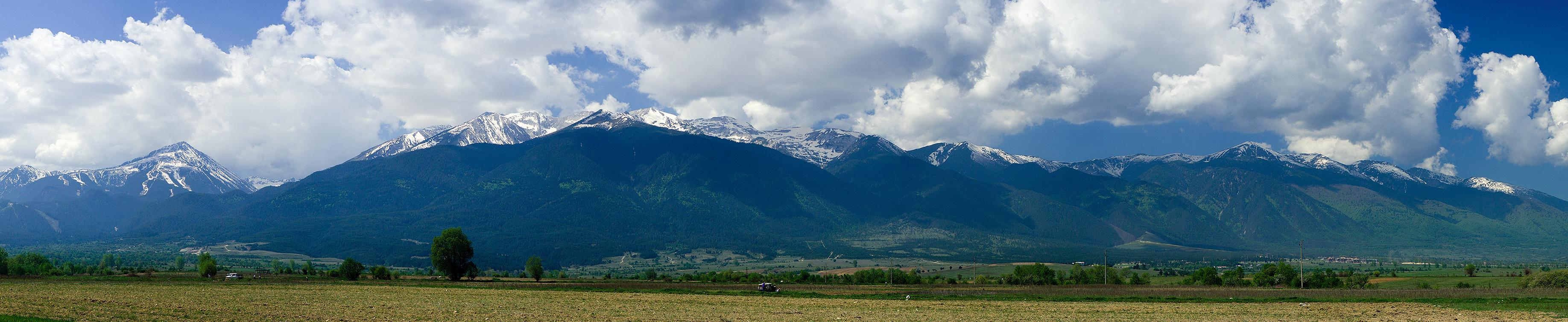 Pirin mountain, panoramic view from Razlog valley.